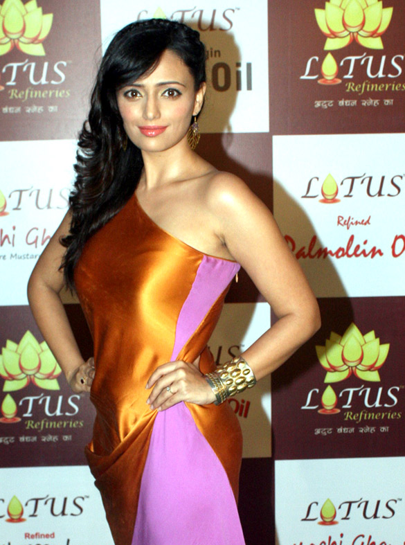 Roshni chopra lotus refinery